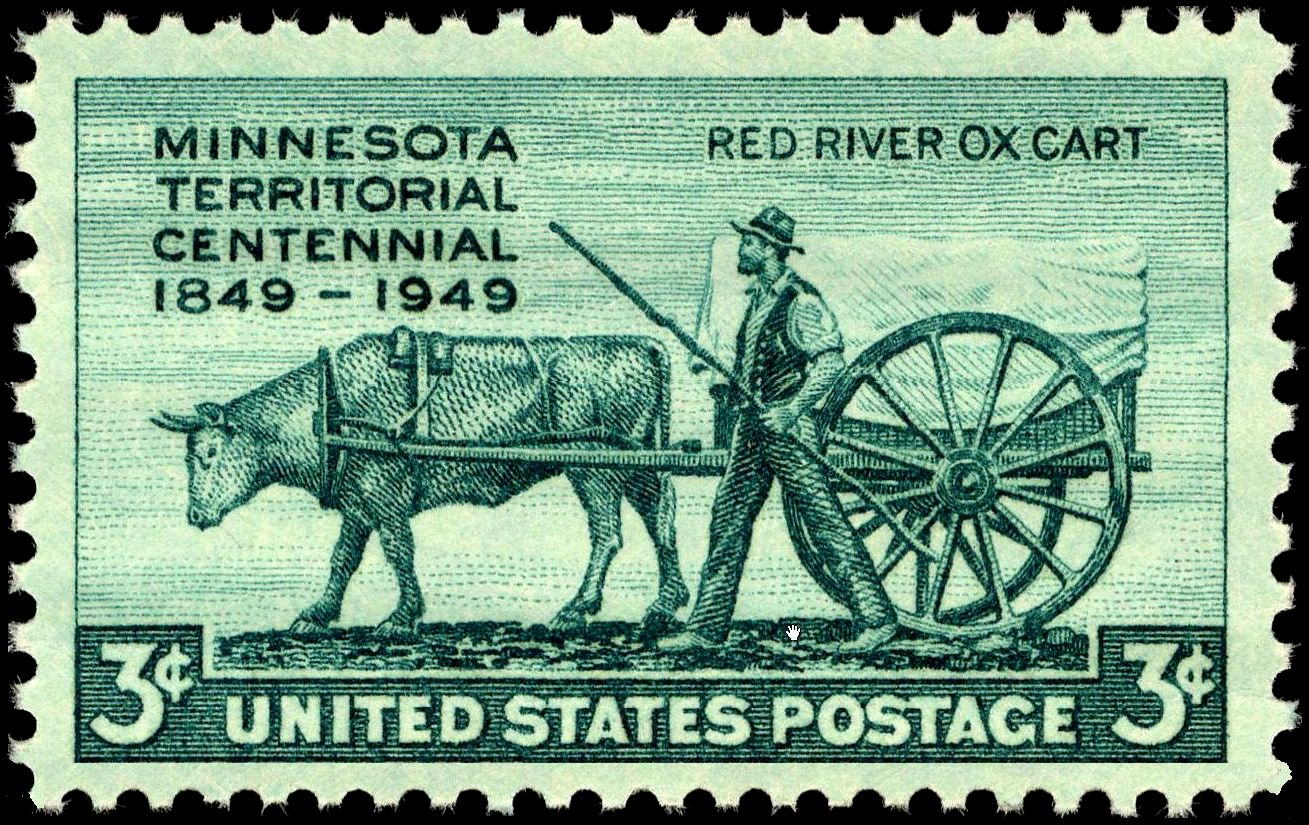 Image of U.S. Commemorative Stamp for 100th anniversary of the Minnesota Territory